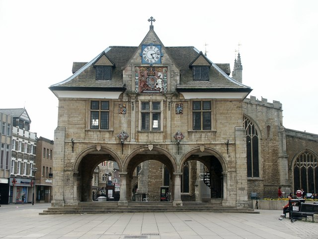 The Guildhall, Peterborough The 17th century Guildhall was built shortly after the restoration of King Charles II. It is supported by columns to provide an open ground floor for the butter and poultry markets, which used to be held there. The Market Square was renamed Cathedral Square in 1963.